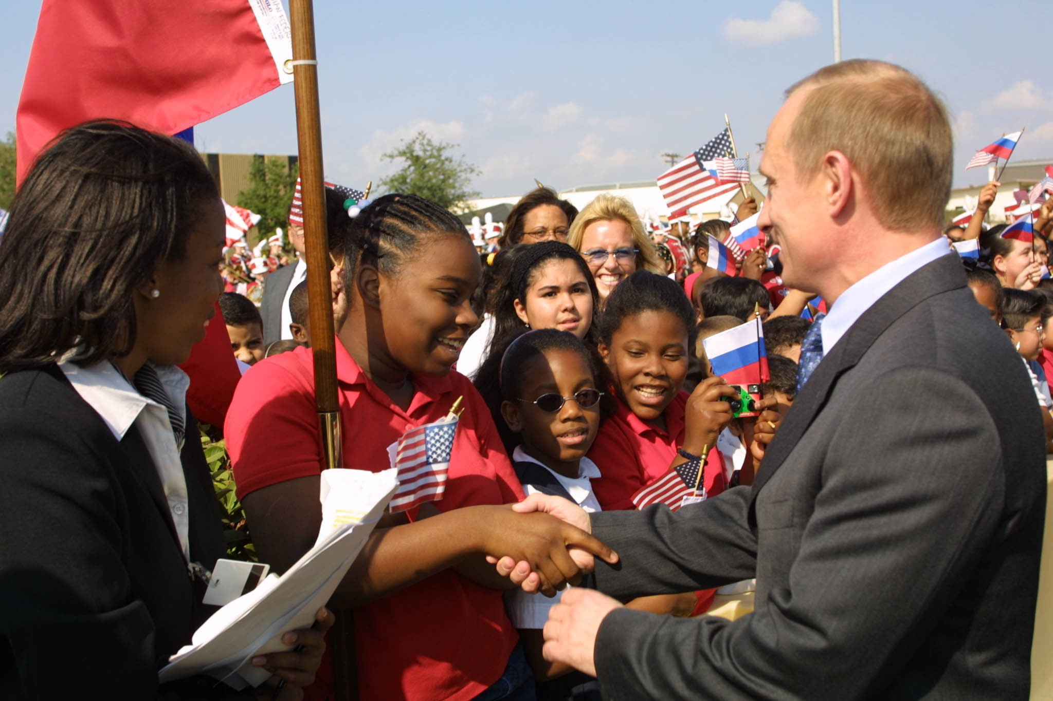 HOUSTON, TEXAS. President Vladimir Putin meeting with townspeople.